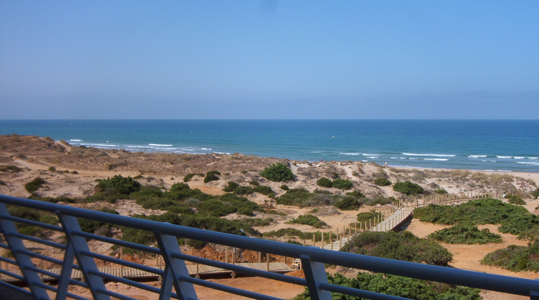 Coast with public footpath seen from the sea front railing at Novo Sancti Petri near Chiclana, Cádiz, Spain